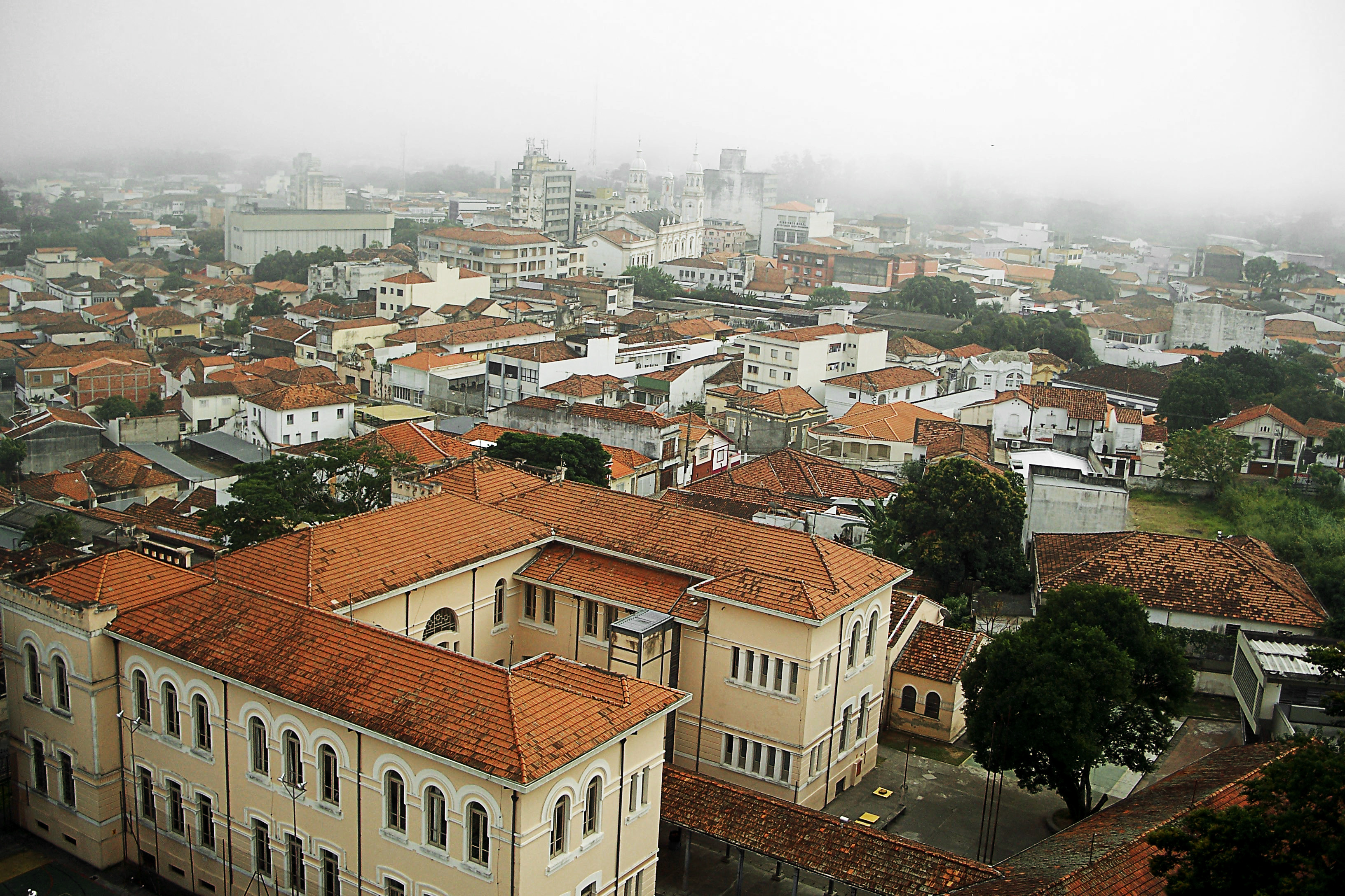 Aerial view of the city of Guaratinguetá, in the state of São Paulo, Brazil.